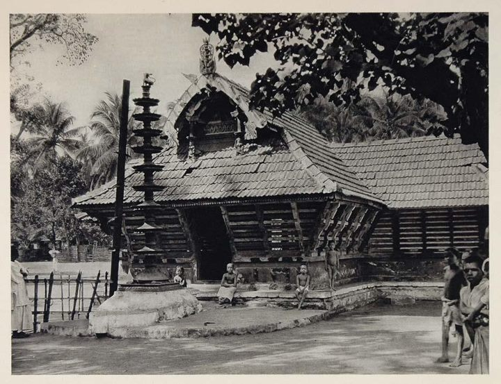 Guruvayur Sri Krshna Temple in Thrissur district in 1730.